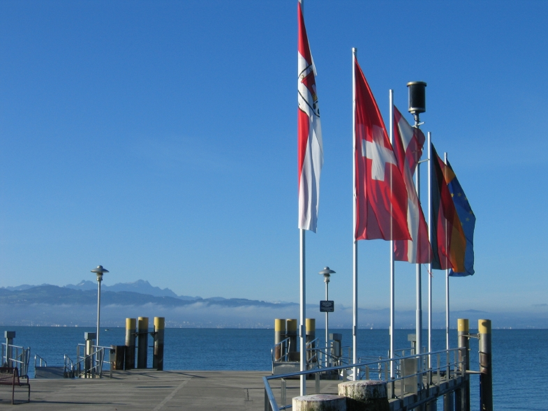 Pier in Kressbronn with view across Bodensee (Lake Constance) to Säntis (2504m Switzerland)